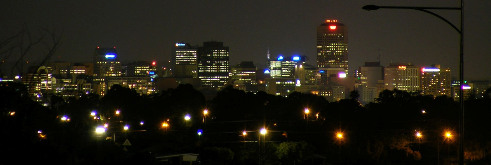 Taken by Norman Hackenberg at Lightsview (Northgate, South Australia) on 8/9/2008.